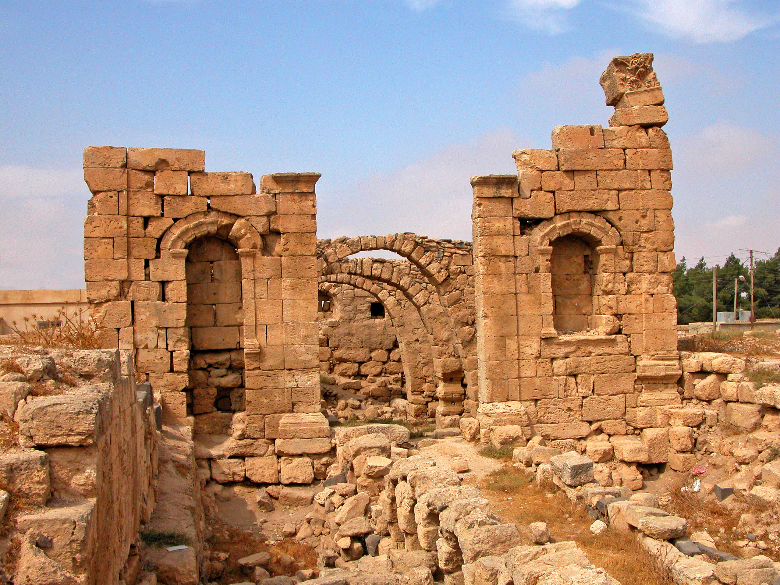 Roman and Byzantine Ruins at Er Rabba on the King’s highway. Though there’s not much to see now, it was once an important Roman town on one of strategic military roads. A few Corinthian columns re-erected along the road and the Byzantine church are all that’s left. Jordan